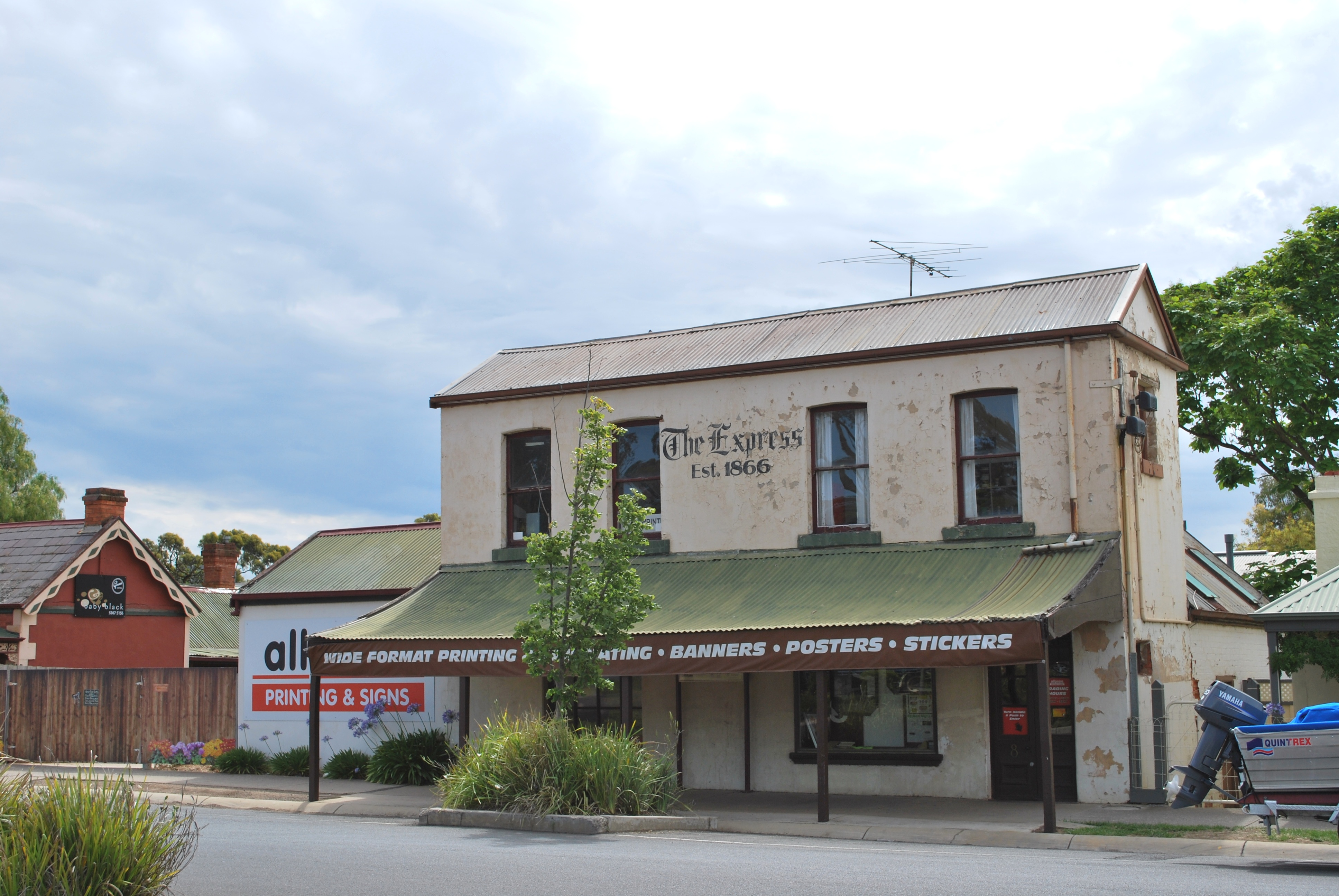 Historic office of the Bacchus Marsh Express in Bacchus Marsh, Victoria